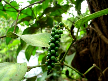 Pepper yet to be ripened, taken by me at our farm in Kerala. This is one of the closeup shots of this cash crop.